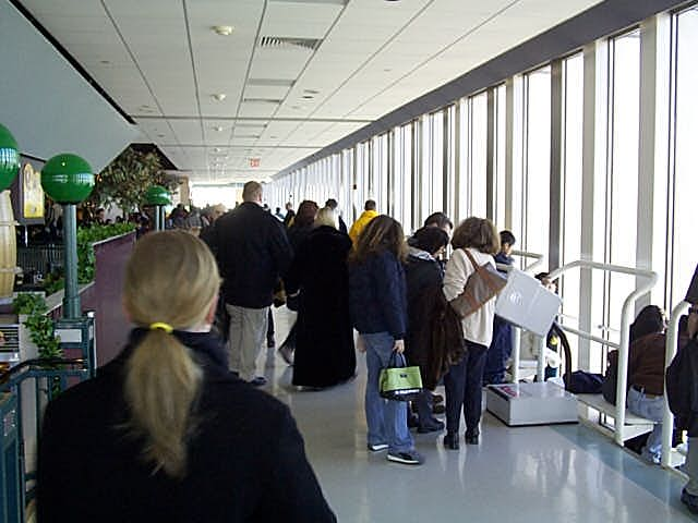 Interior observation deck of the World Trade Center, New York City, New Year's Day 2001.World Trade Center January 1 2001